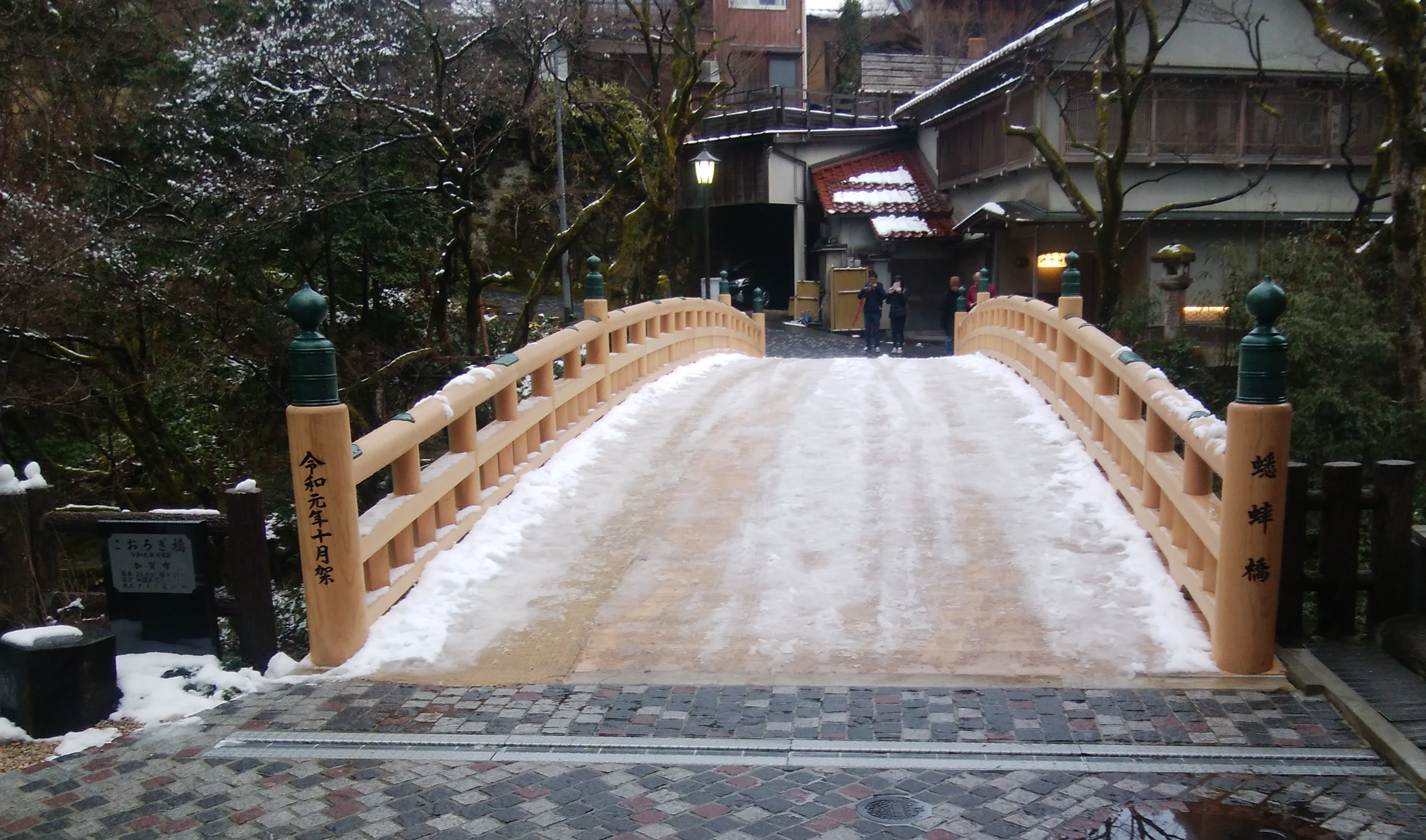 Korogi Bridge is located in Yamanaka Onsen, Kaga City, Ishikawa Prefecture. The image is Korogi Bridge which is replaced in 2019.